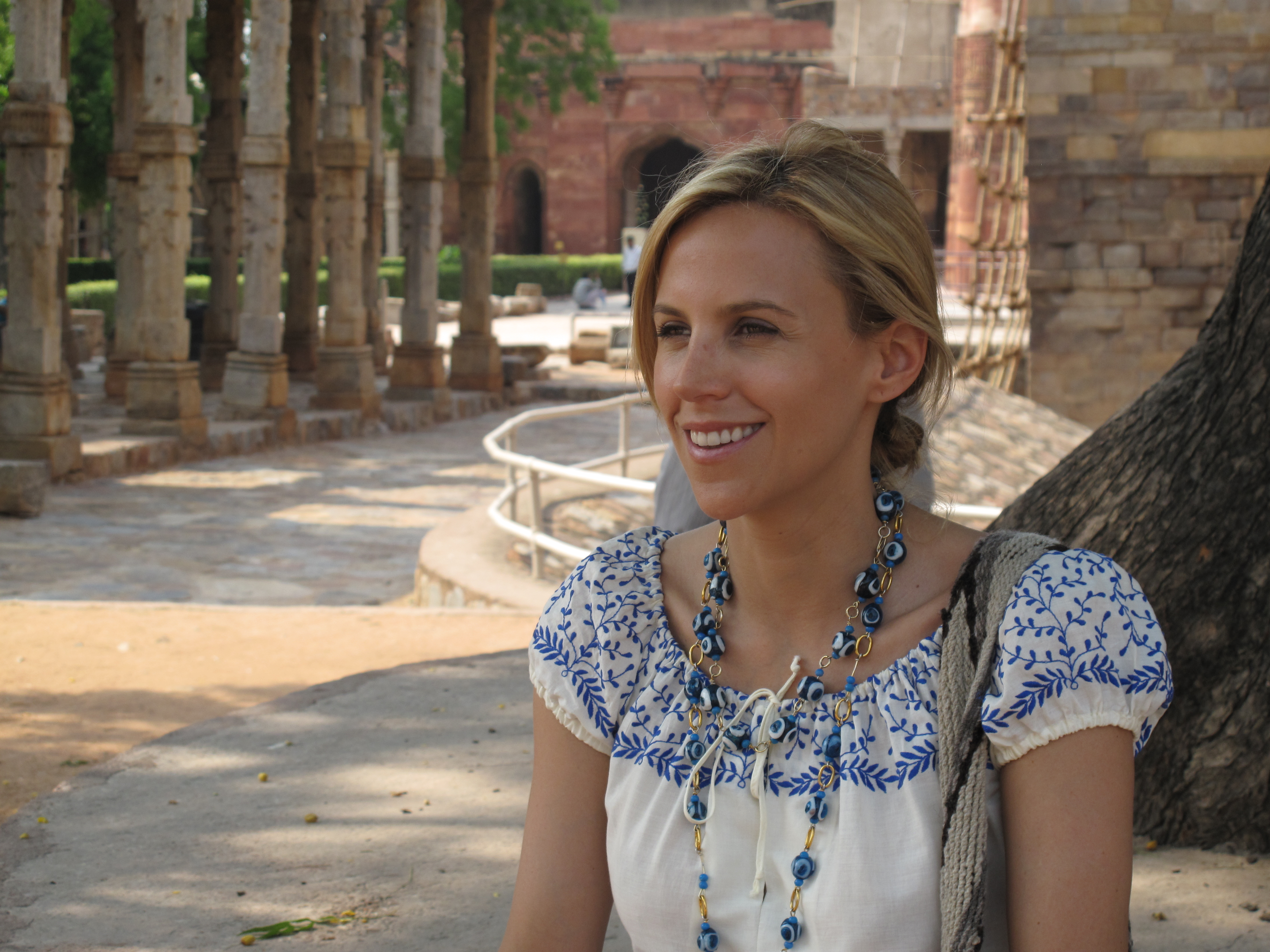 Tory Burch in India